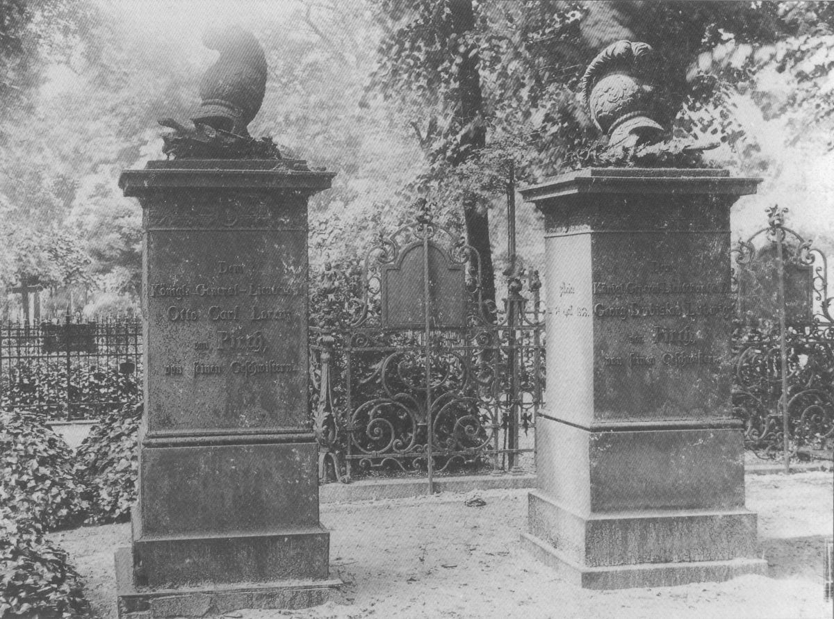 grave monuments for Otto von Pirch (1765–1824) and Georg von Pirch (1763–1838) on Invalidenfriedhof cemtery in Berlin, designed by Karl Friedrich Schinkel. Photo made in 1897.